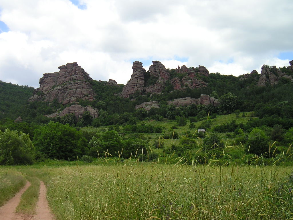 The rocks in the locality Orlya near Falkovetz, Bulgaria